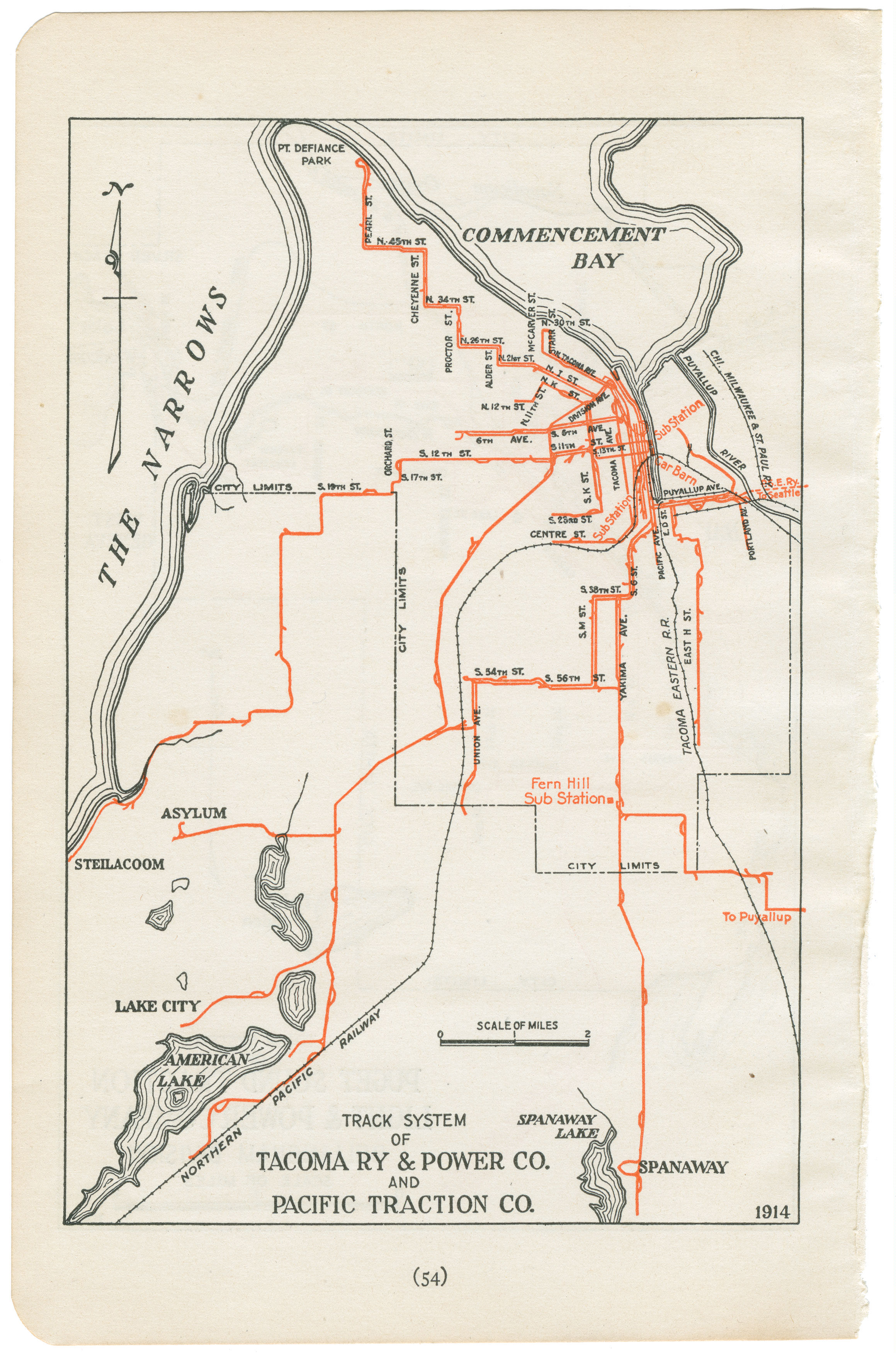 1914 map of street railways in Tacoma